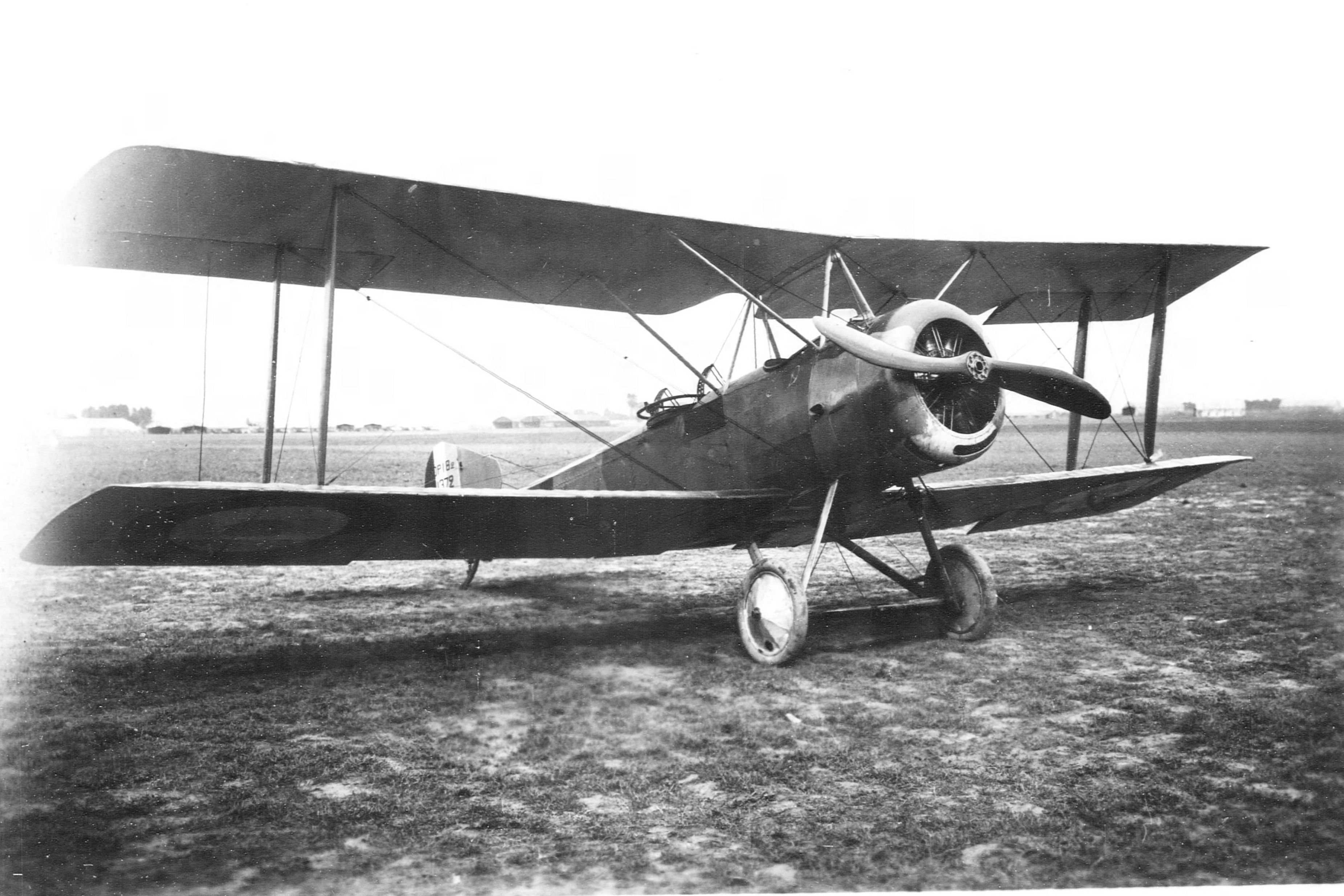 French-built Sopwith 1B.2 Strutter at Air Service Production Center No. 2, Romorantin Aerodrome, France, 1918